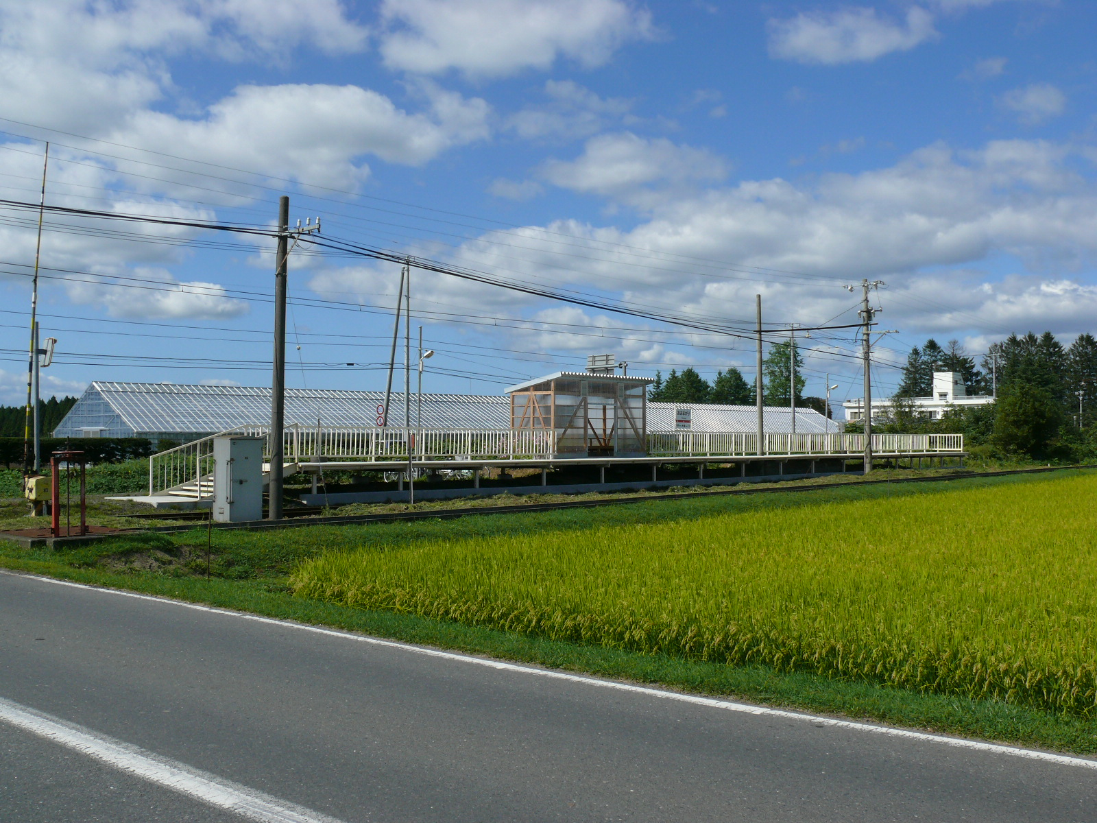 Towada Kanko Electric Railway Omagari Station,Aomori,Japan.